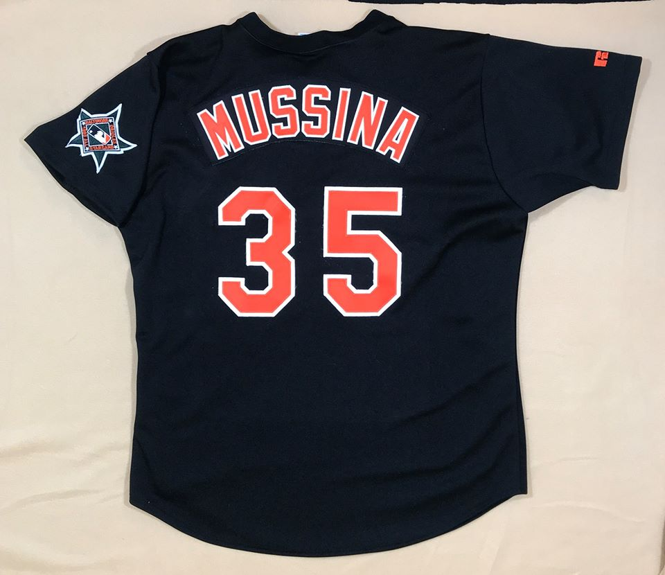 1993 Baltimore Orioles #35 Mike Mussina alternate jersey lettered and photographed by William F. Henderson who may be contacted through his website at thedream.shop